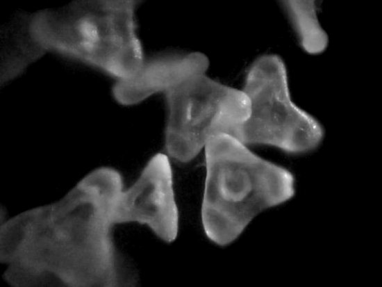 The pollen of Showy Primrose (Oenothera speciosa) (magnified 200x)